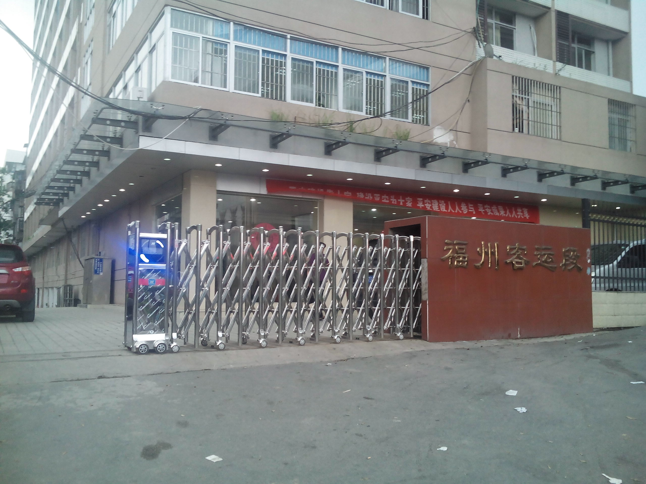 201508 Fuzhou Service Office